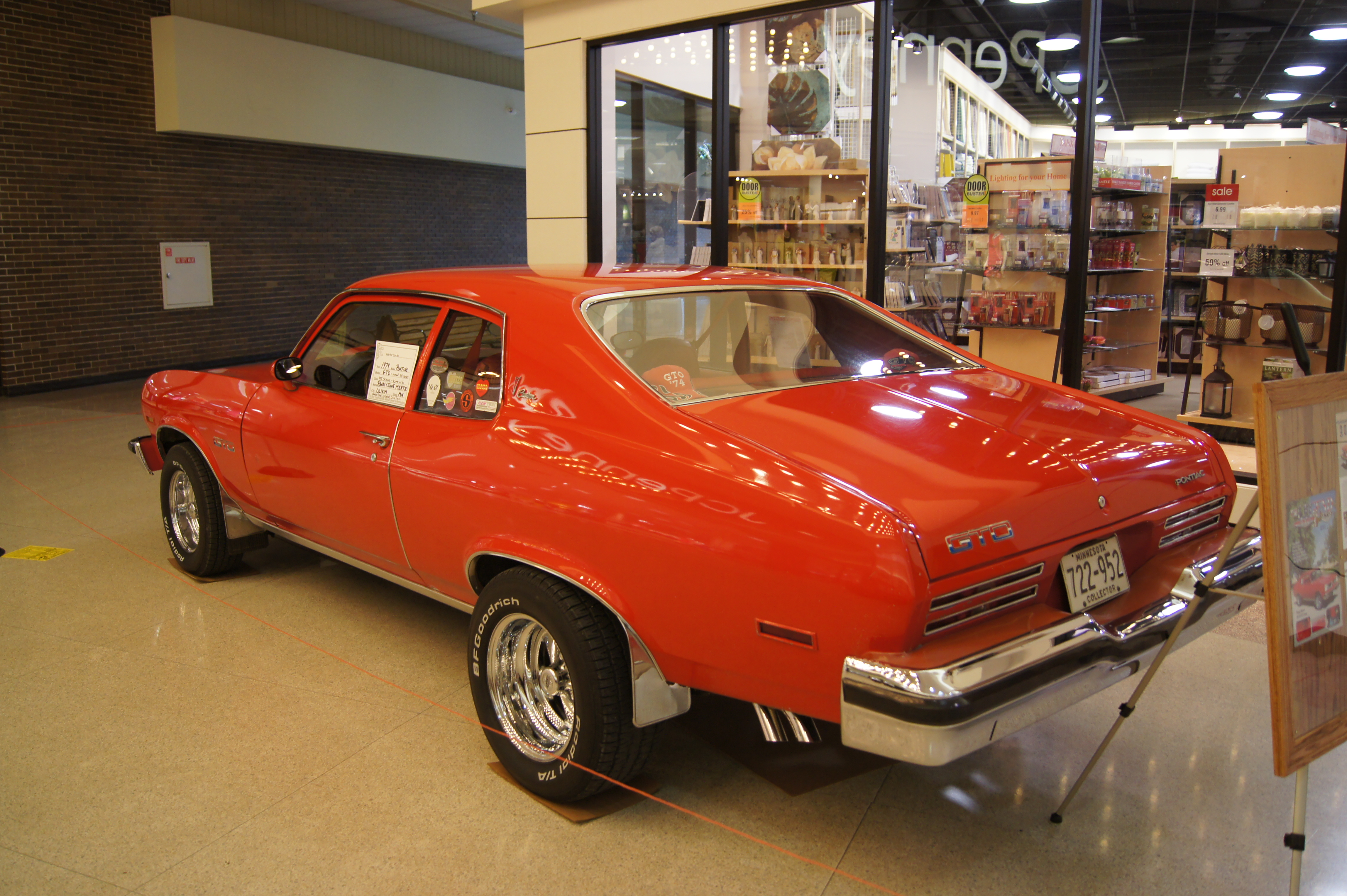 2013 Willmar Car Club Kandi Mall Display